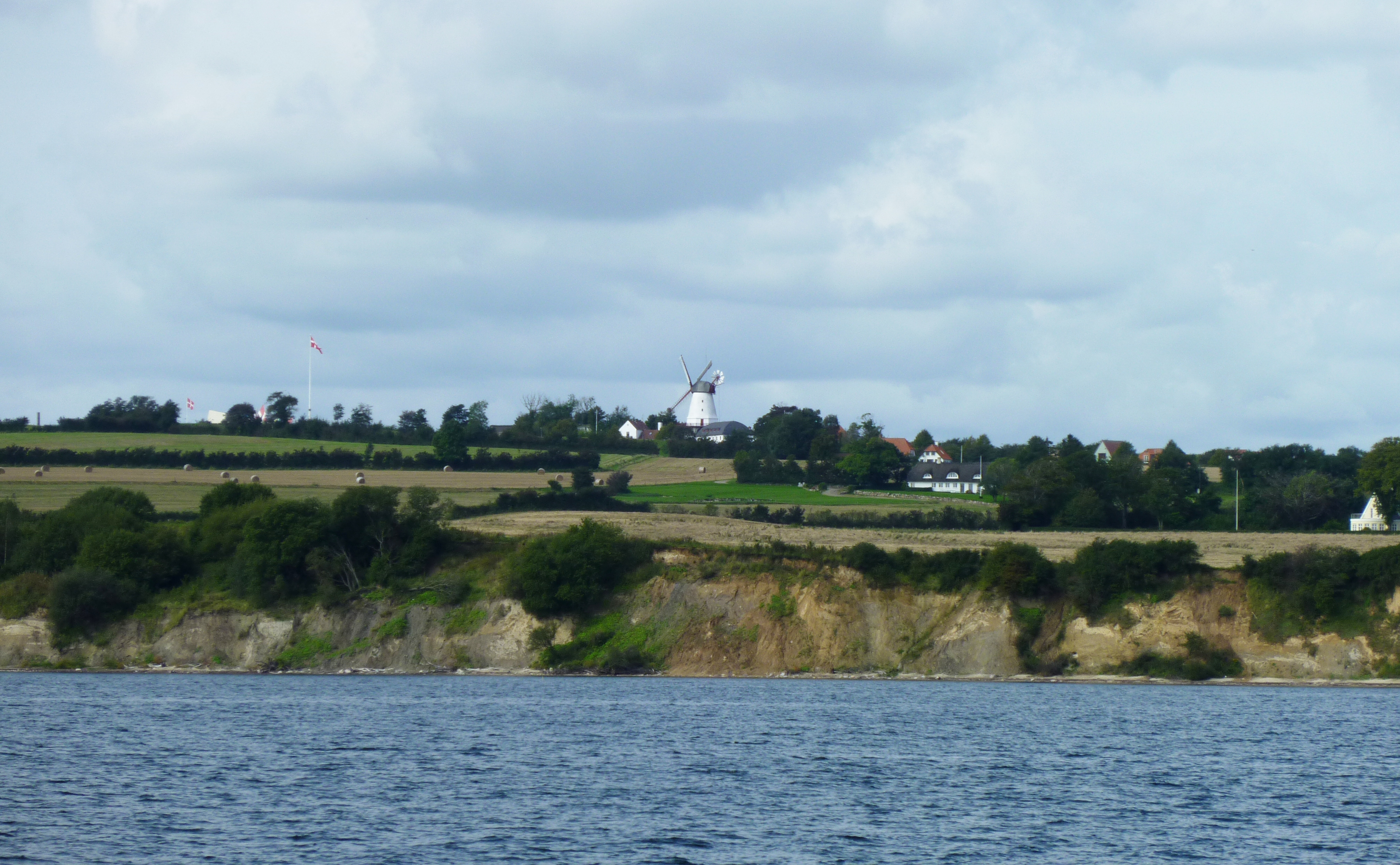 The hill where the Battle of Dybbøl took place, seen from seaside